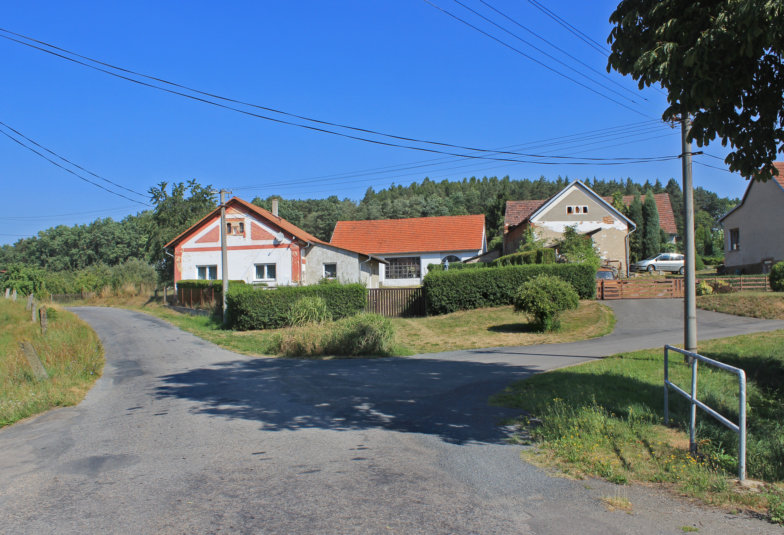 Common in Mrákotice, part of Sedlec-Prčice, Czech Republic.